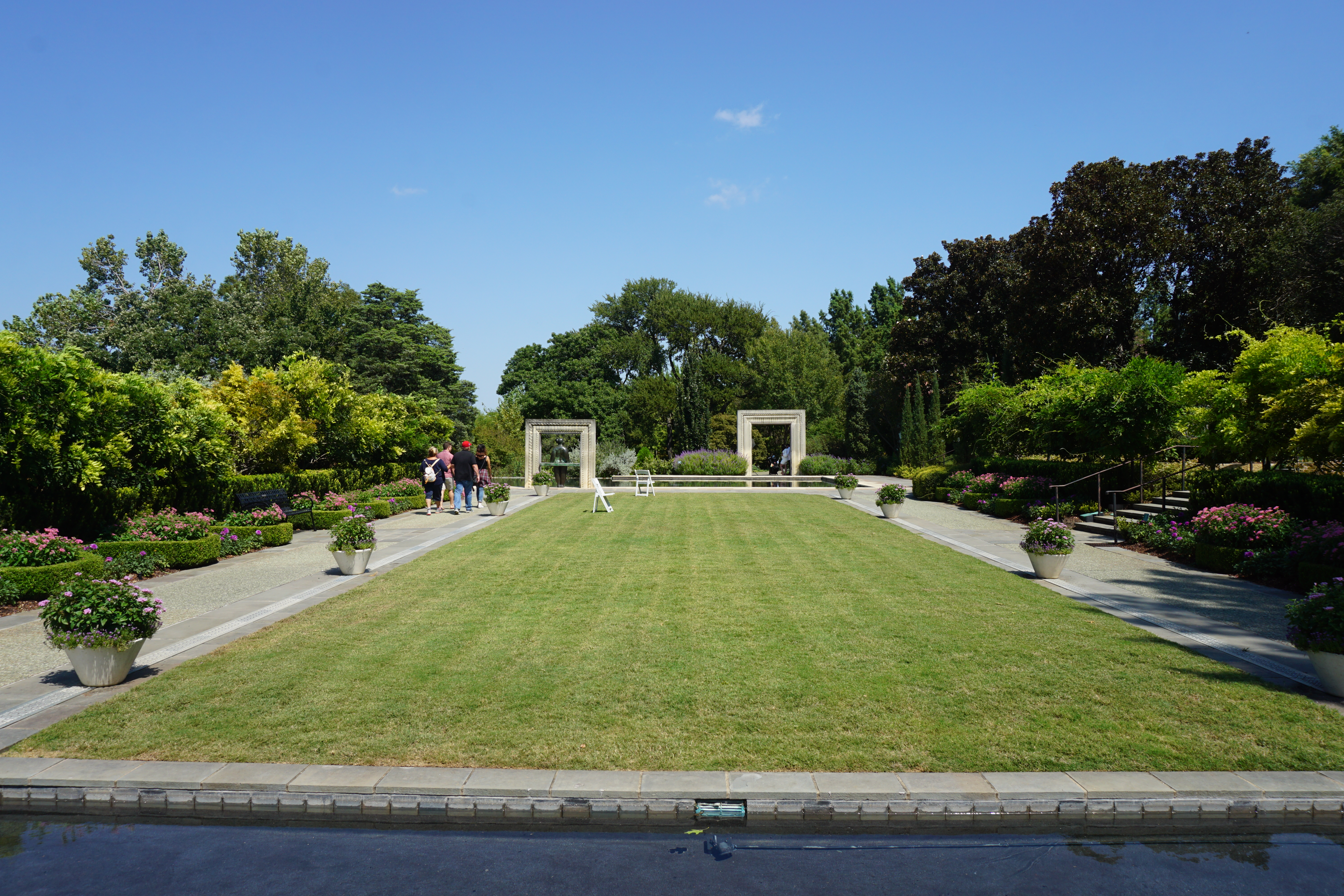 A Woman's Garden at the Dallas Arboretum and Botanical Garden in Dallas, Texas (United States).